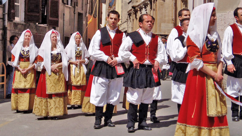 folk costume of Dolianova